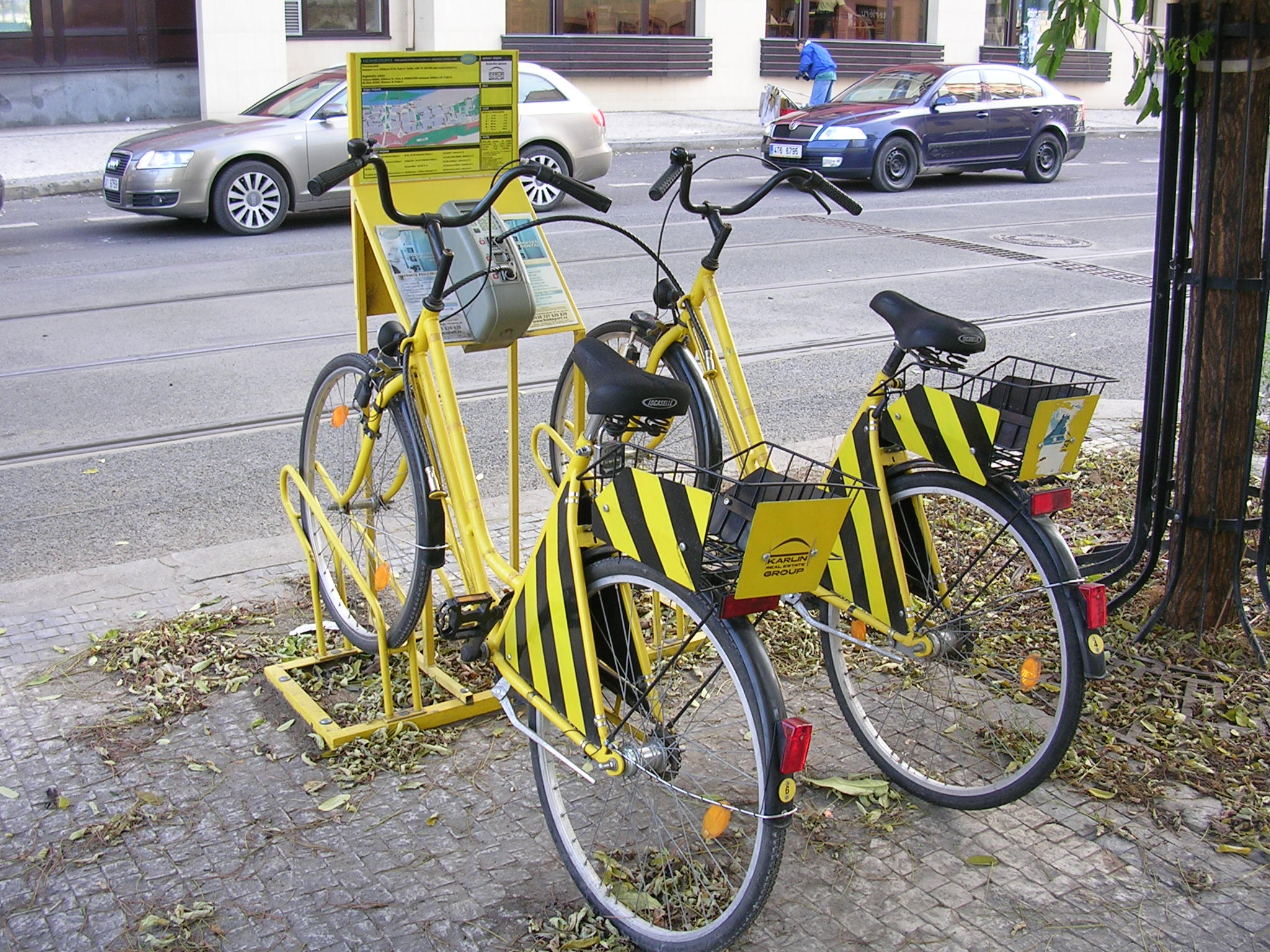 Karlín, Prague.